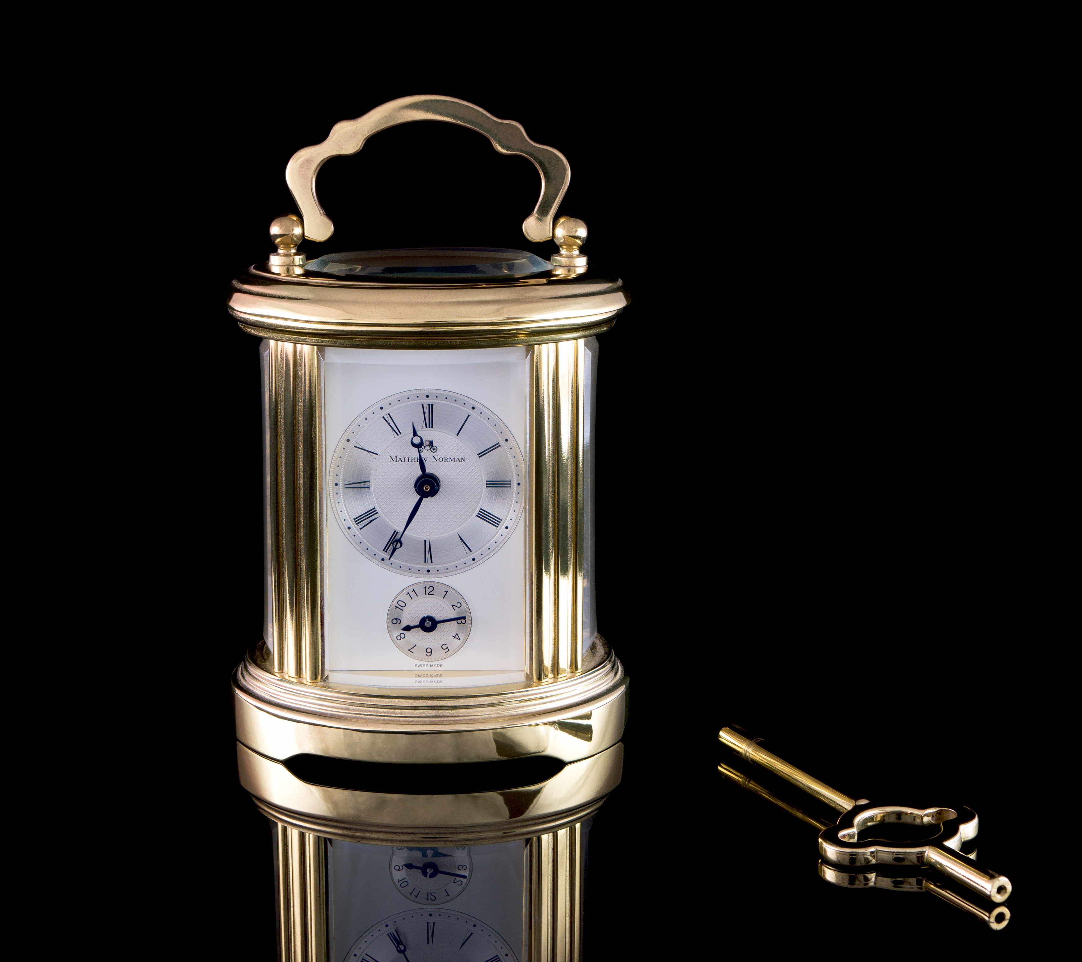 Matthew Norman carriage clock with winding key. Height around 10 cm (without handle). Stacked image. This photograph was taken with a Panasonic Lumix DMC-G85/G80